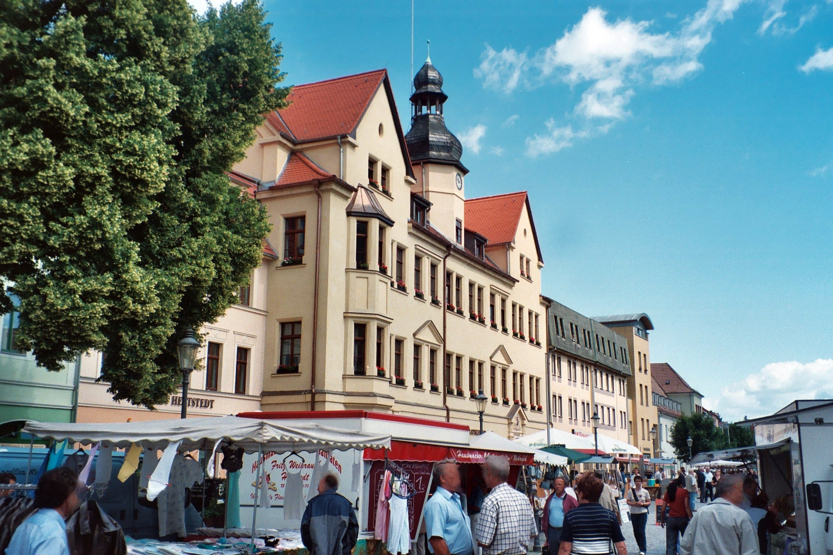 Hettstedt, the town hall